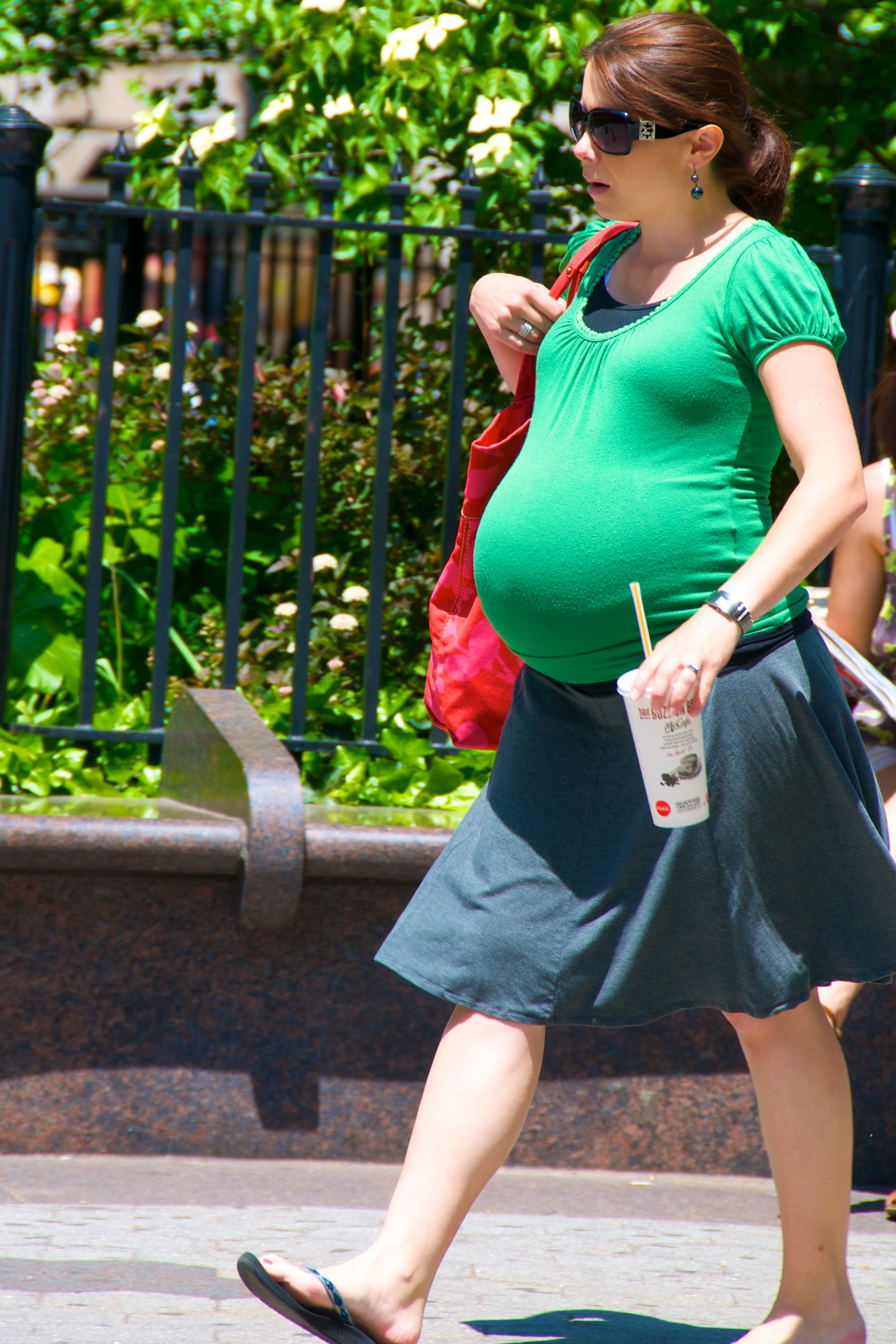 I'm pregnant, and I'm beautiful.